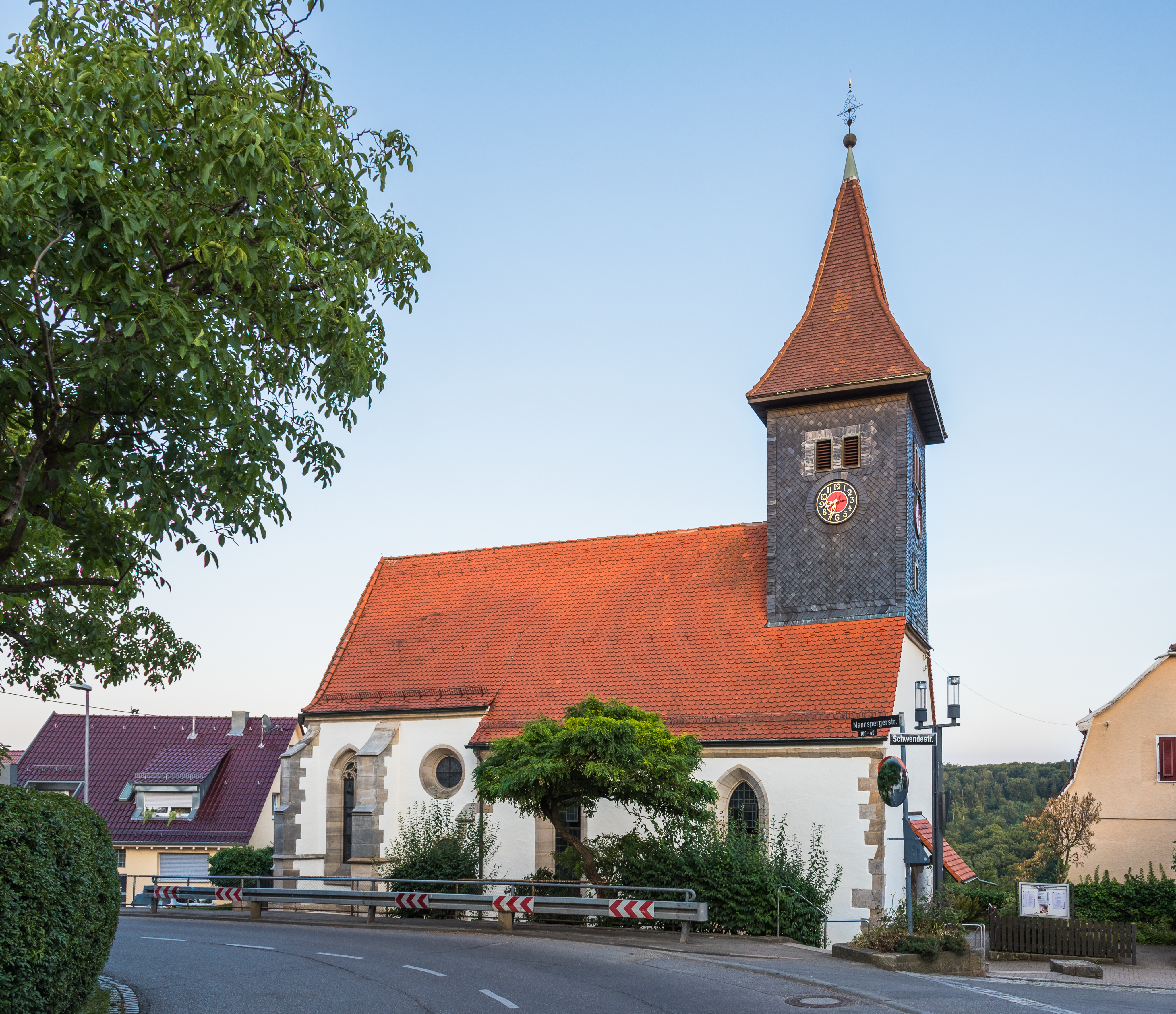 Old protestant church in Heumaden, Stuttgart, Germany